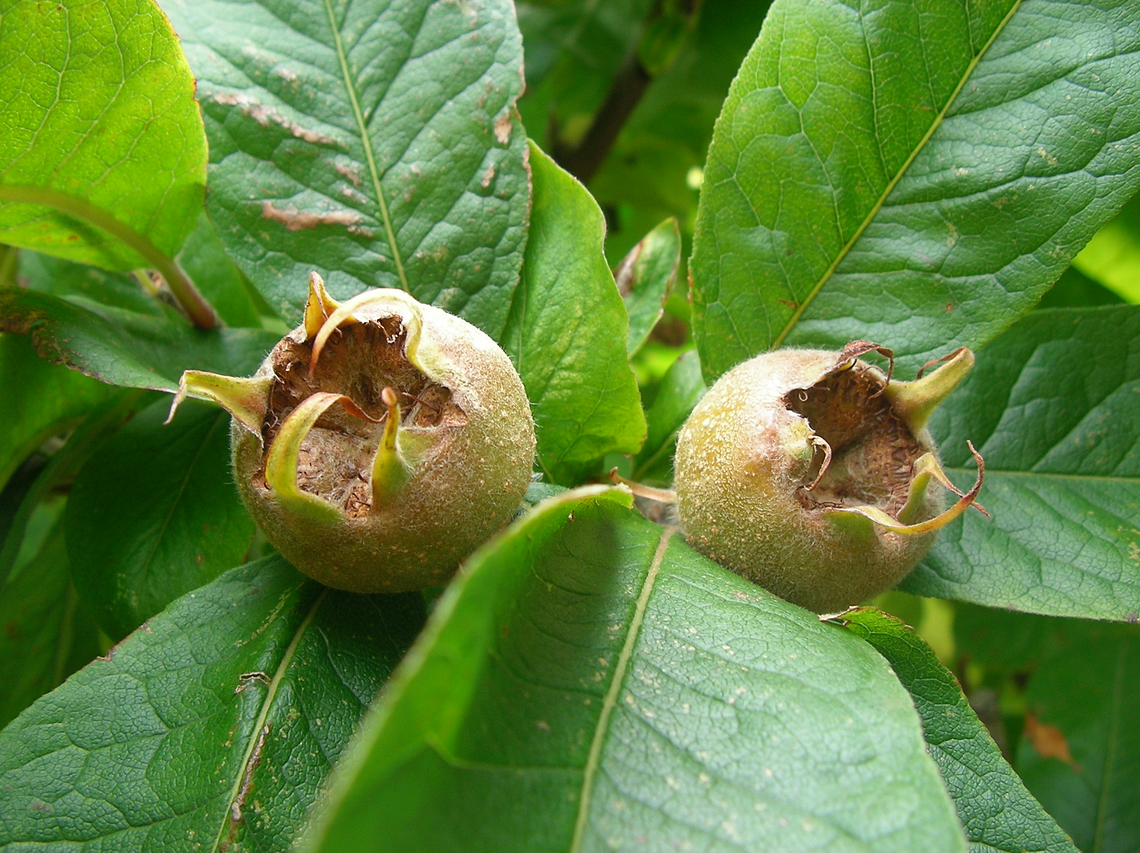 Fruits of Mespilus germanica, Buckfast Abbey, Dartmoor, England